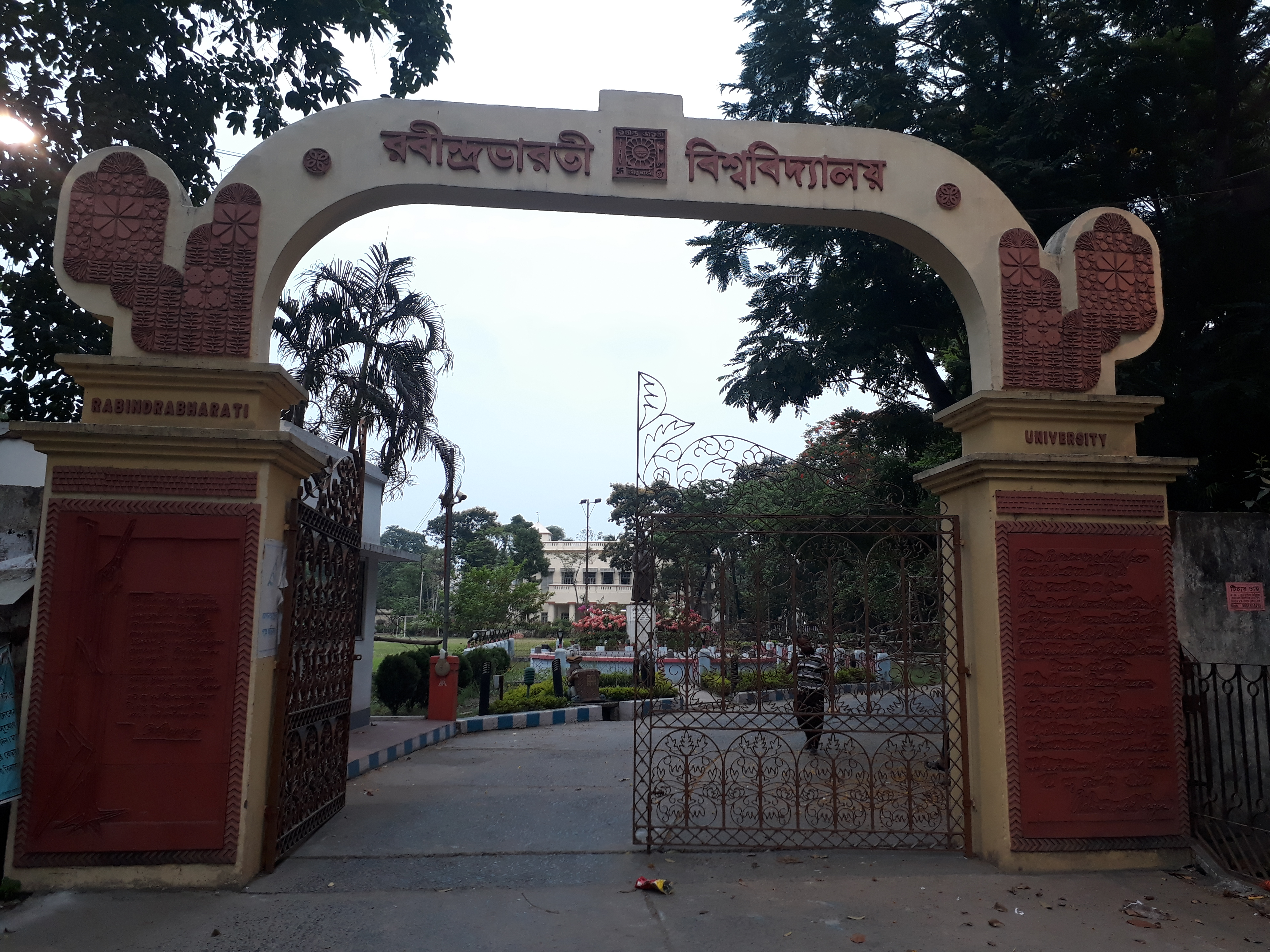 Rabindrabharati University, BT Road campus, Kolkata